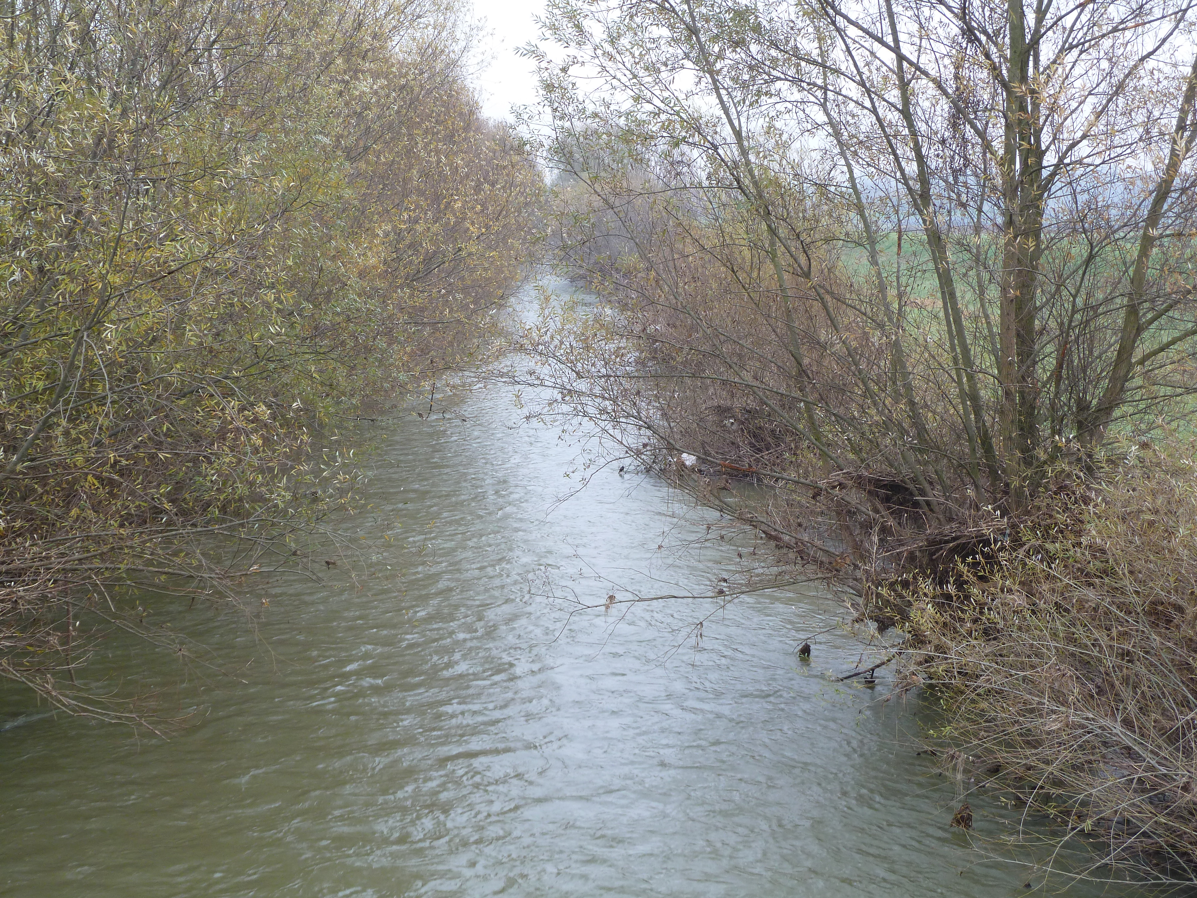 Pesnica River below the village Formin